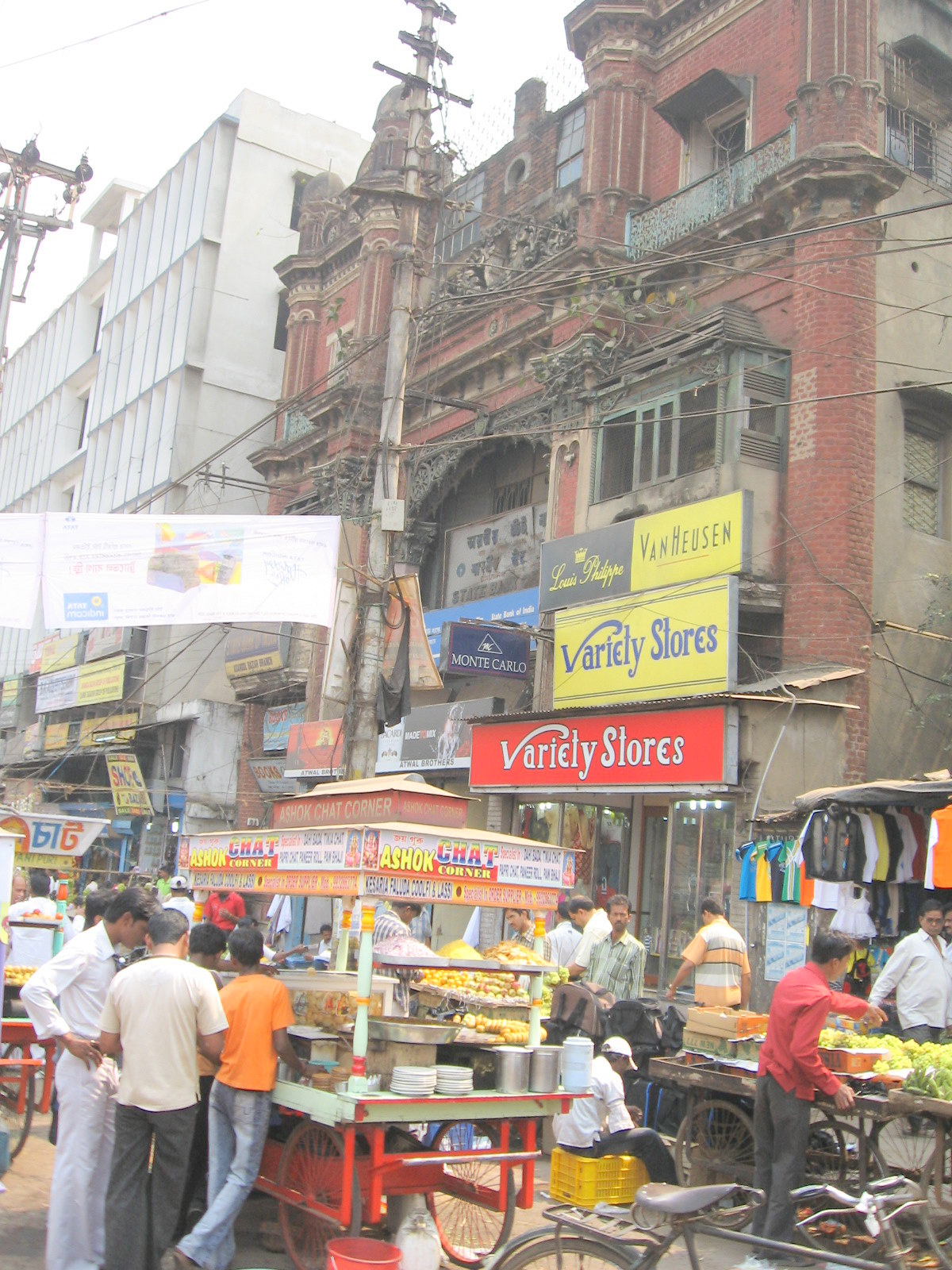 Atwal Brothers, an old landmark on GT Road